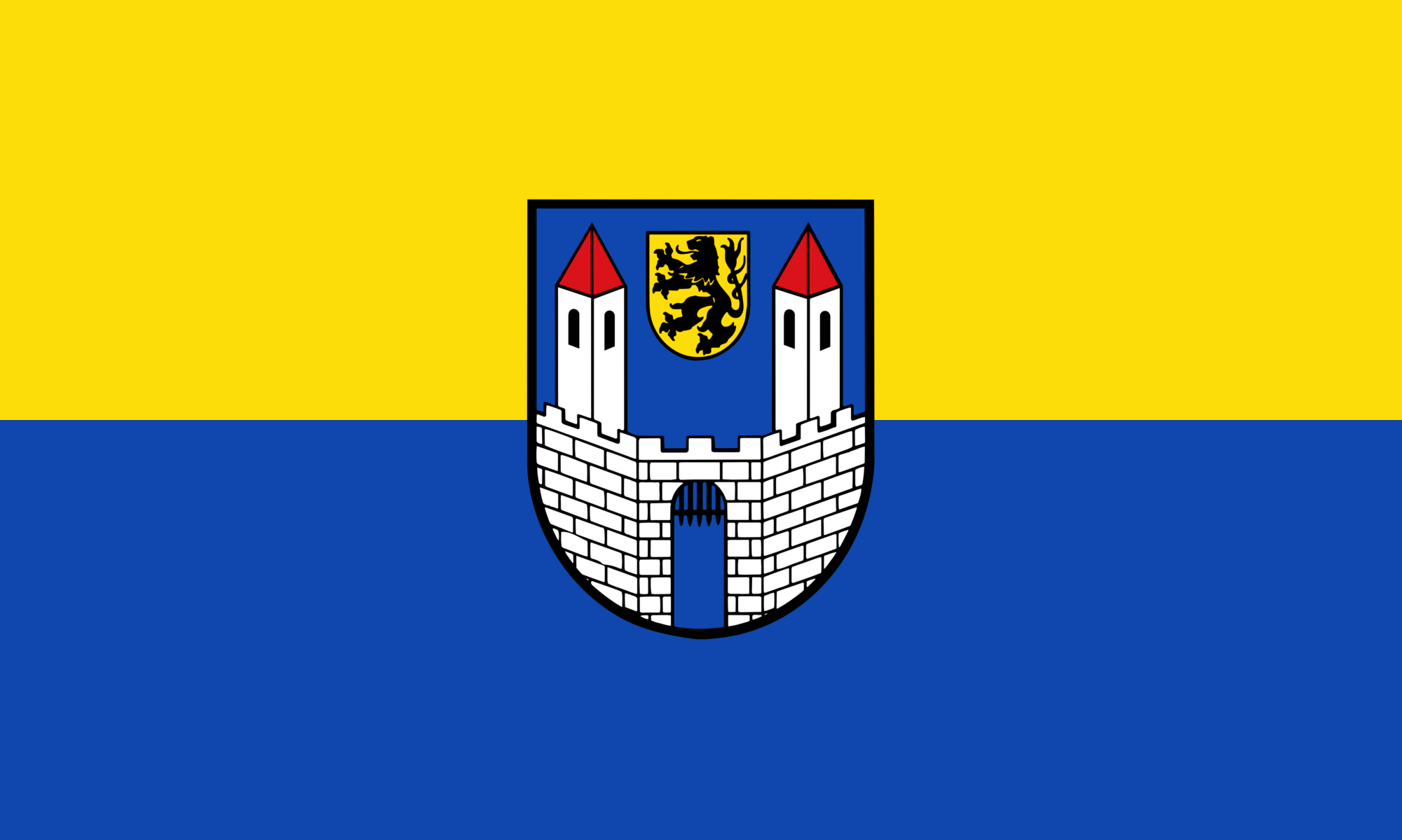 Frlag of the City of Weißenfels (Weissenfels)